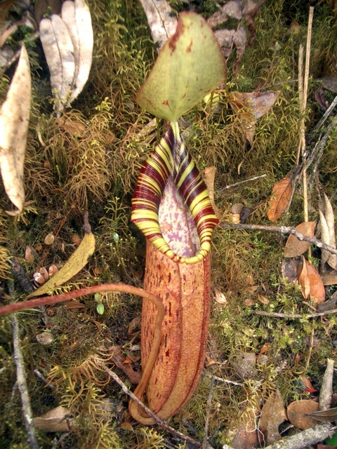 Nepenthes ovata × Nepenthes spectabilis from Simanuk-manuk, Sumatra.